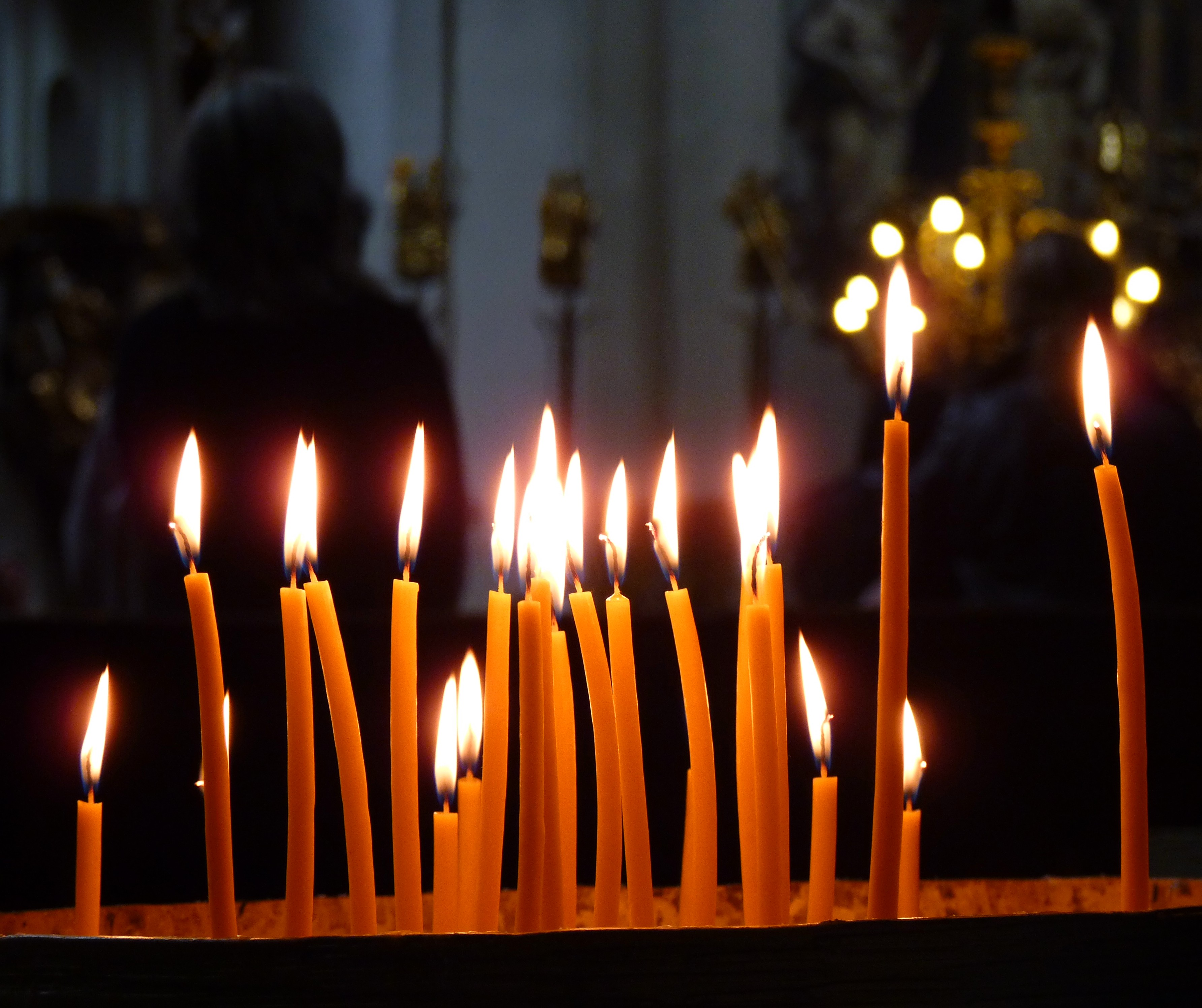 Candles in a church in Prague.